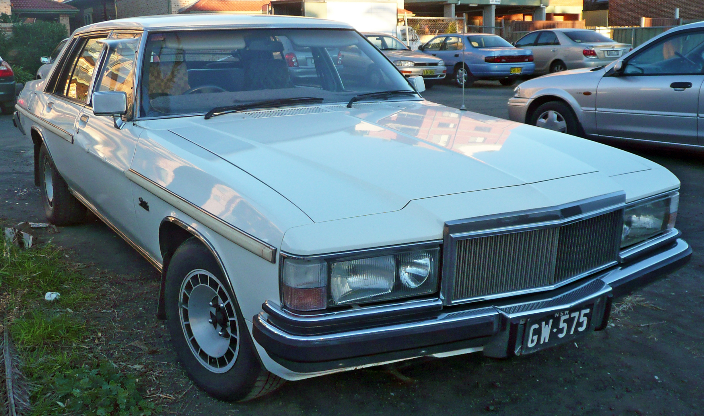 1983 Statesman WB de Ville sedan (with Statesman WB Caprice grille). Photographed in Sutherland, New South Wales, Australia.